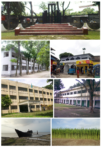 It's Charbhadrasan Landmarks